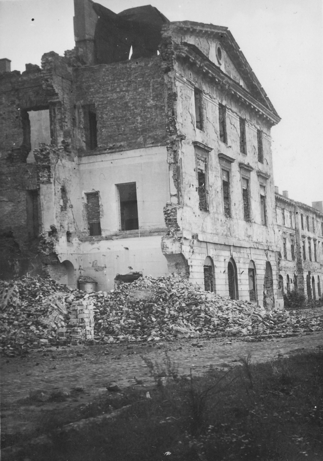 Ruins of center part of Pavilions 3-9 of Warsaw Citadel in years 1940-1941. Before war the building was used as a base for 30th infantry regiment of Kalinow Shooters. Building was burned in 1939 and demolished in years 1940-1943. The photo shows demolishion process judging by neat piles of bricks.